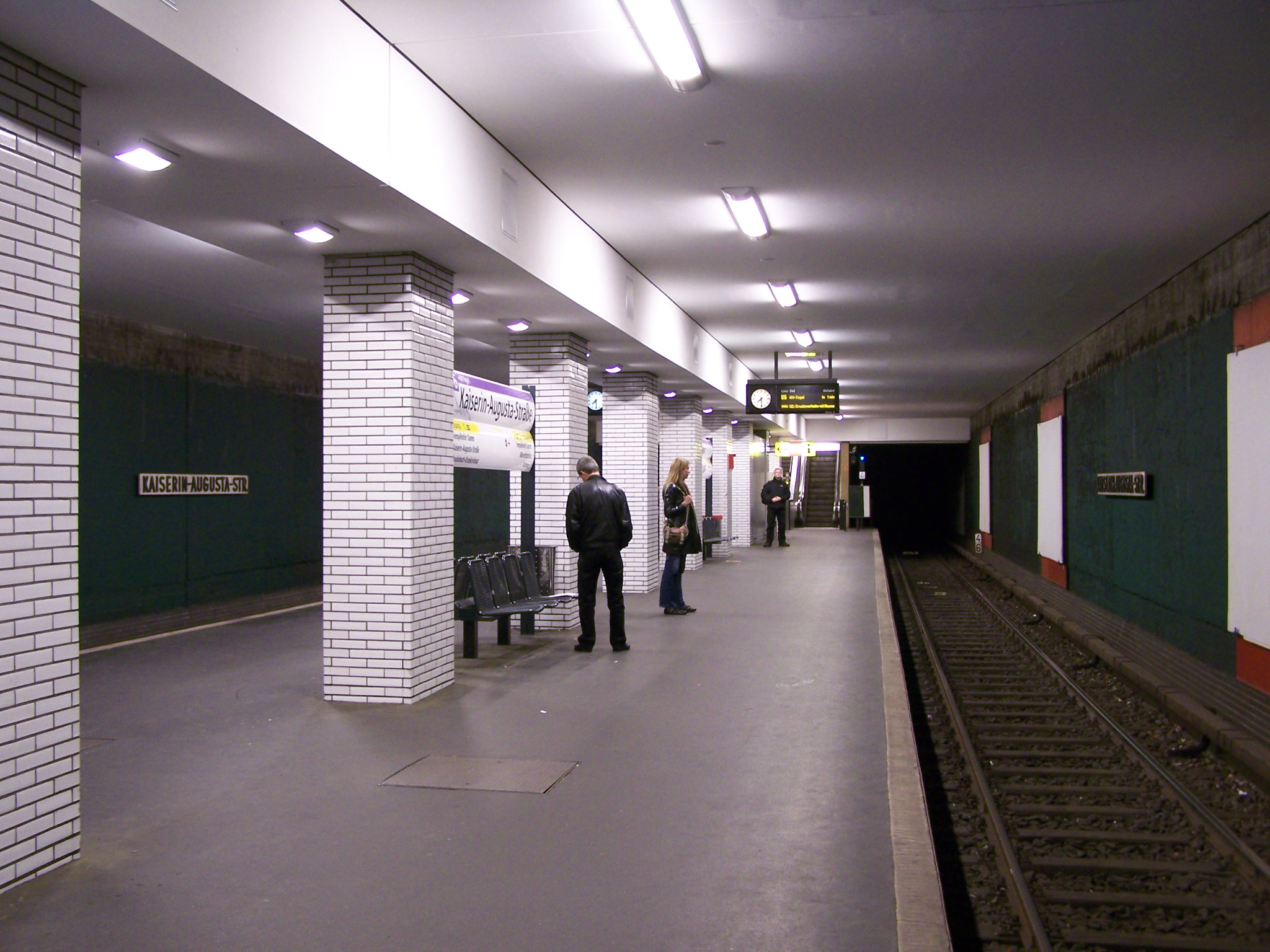 platform of Berlin's underground station Kaiserin-Augusta-Straße, line U6